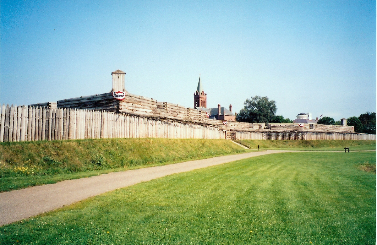 Interior of Fort Stanwix, Rome, New York, USA